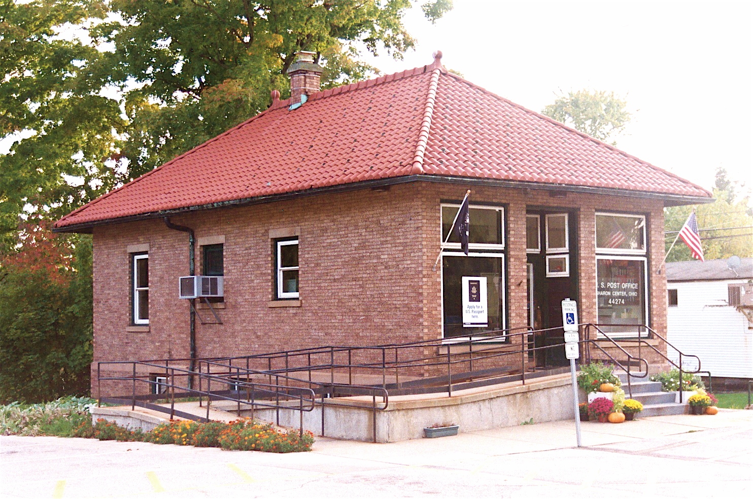 Sharon Center Public Square Historic District